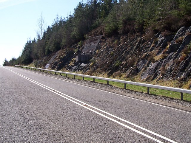 M.O.D. road to Coulport. Another cutting, reinforced by big screwed rods. Strange, the big rock doesn't look as if it would jump out